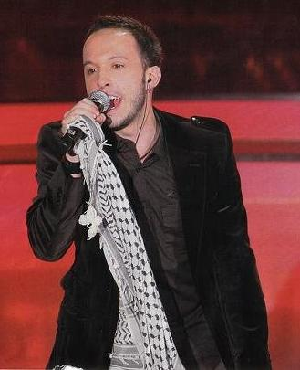 Vukasin performing in the OT finals